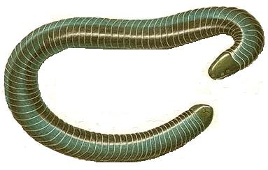 Blue ringed salamander (Caecilian)(Syphonops annulatus) From the from the first edition of Dictionnaire D'Histoire Naturelle by Charles Orbigny. 1849 The name is Siphonops annulatus without an 'y'. B kimmel 14:20, 12 November 2005 (UTC)